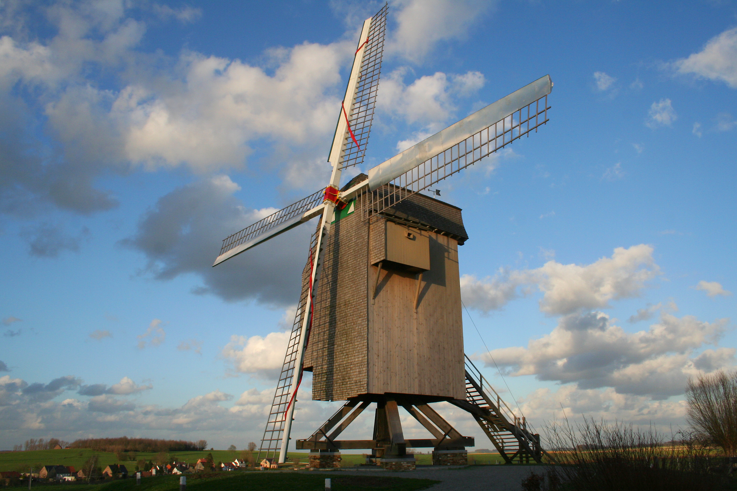 Moulbaix (Belgium), the windmill « de la Marquise » (XVII/XVIIIth centuries).